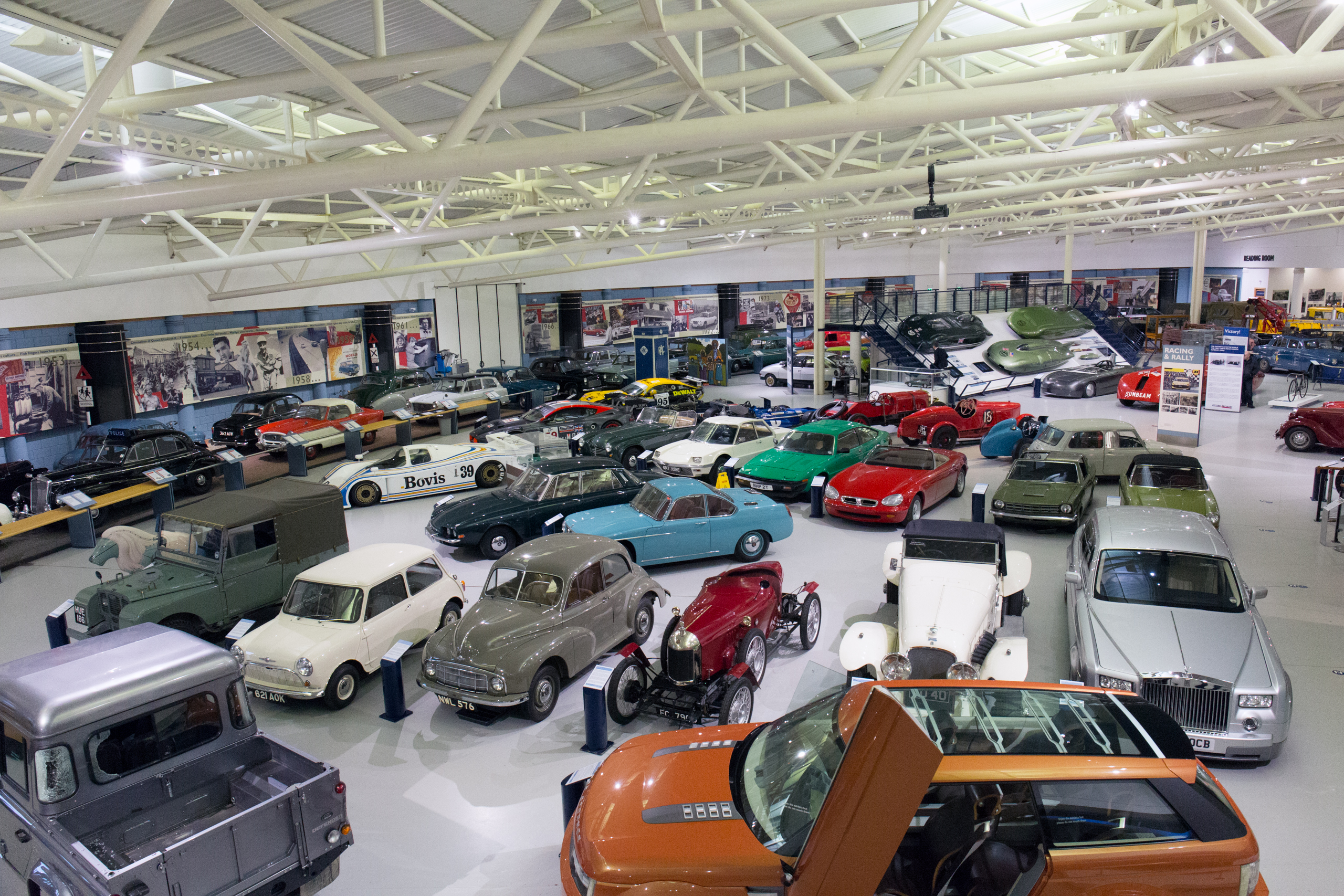 Interior of the museum